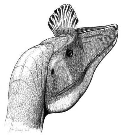 The Antarctican theropod dinosaur , Cryolophosaurus ellioti by John Conway [1]